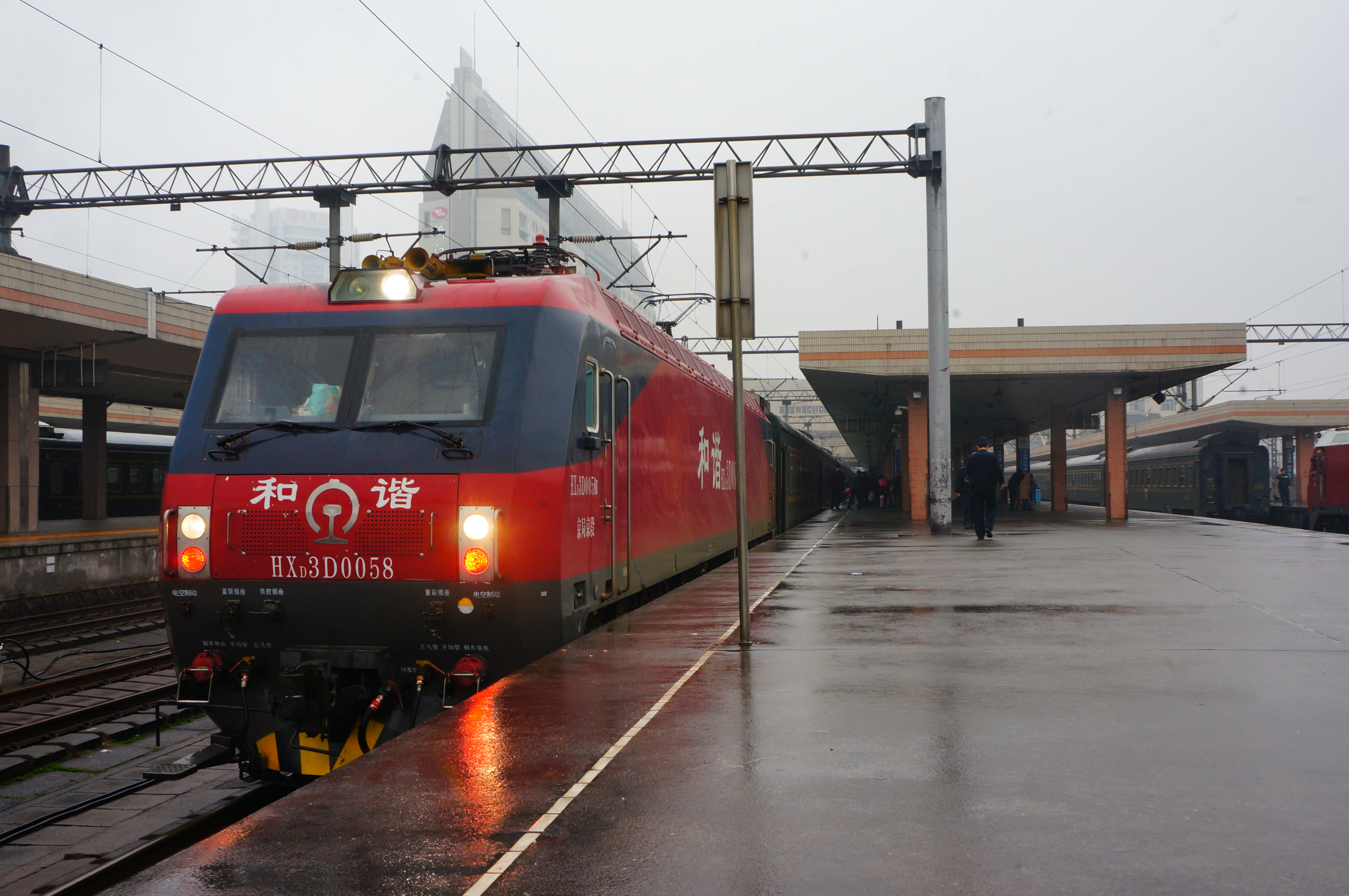 201812 HXD3D-0058 hauls Z9 at Hangzhou Station